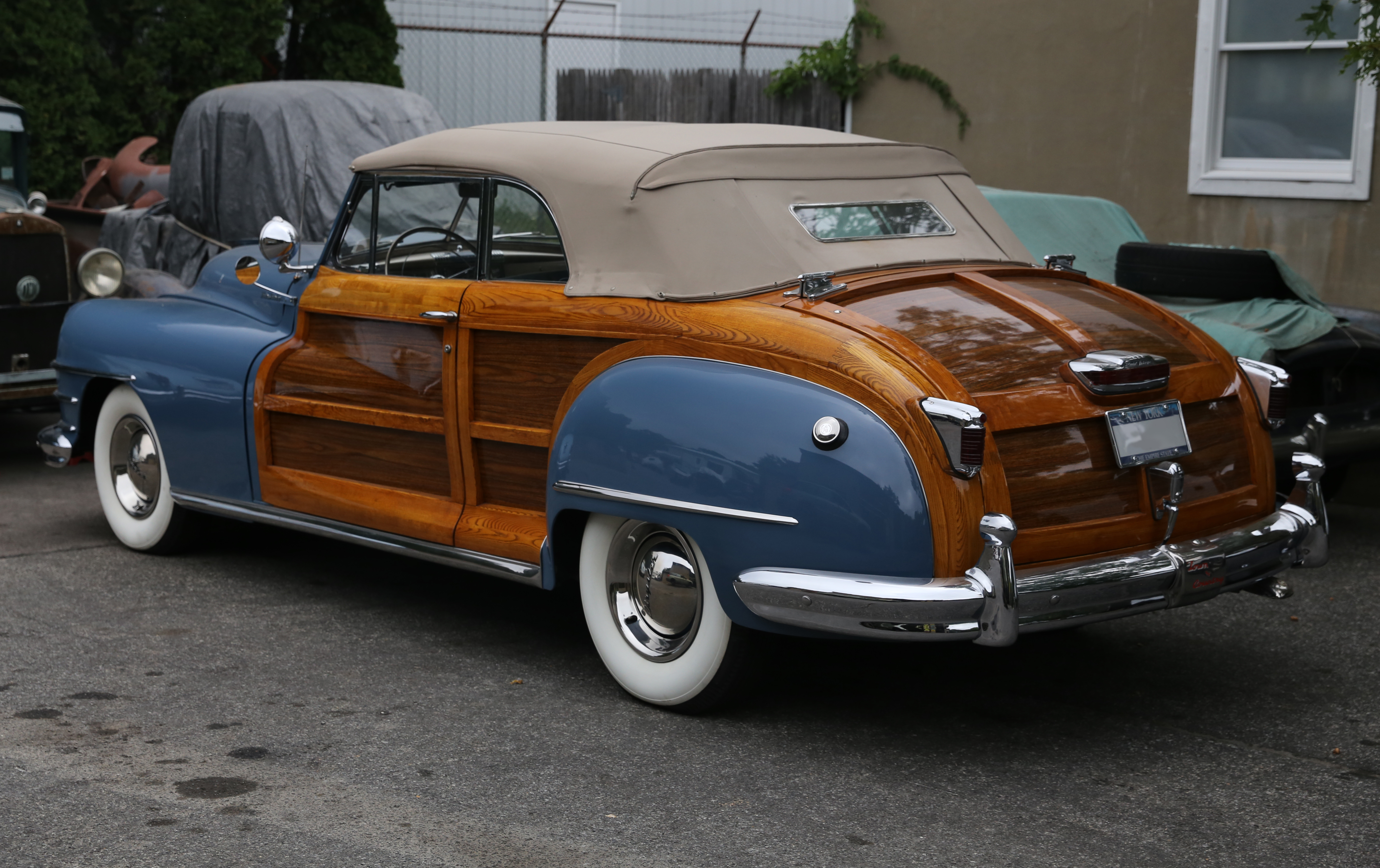 A 1948 Chrysler Town & Country convertible, rear left view.